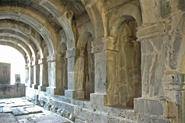 Sanahin monastery. Academy, Armenia